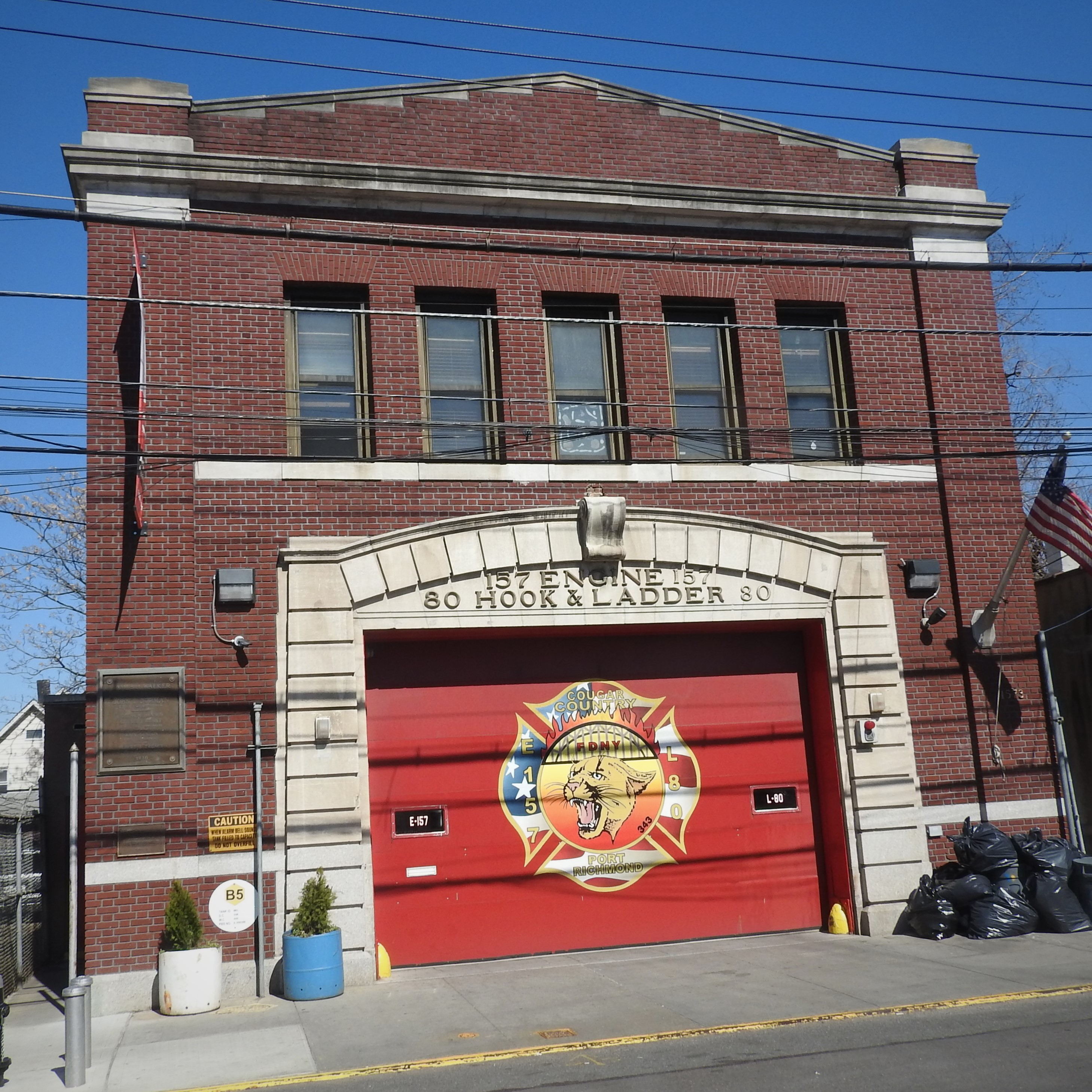 Looking north on a sunny midday